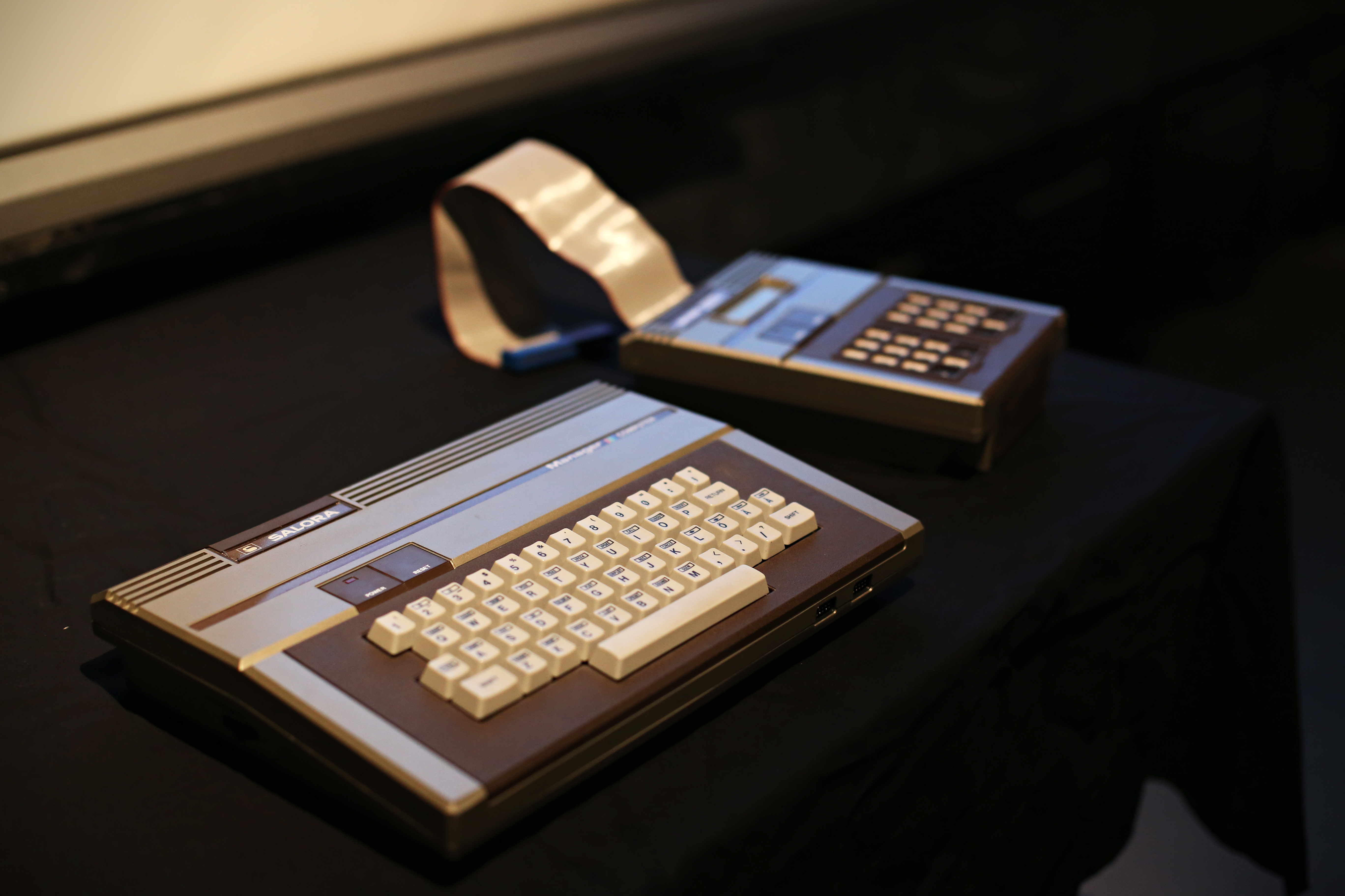 Presentation of Salora Manager a at an ediathon at the Media Museum Rupriikki 6.9.2014. The ediathon was co-organised by Media Museum Rupriikki and Wikimedia Finland.